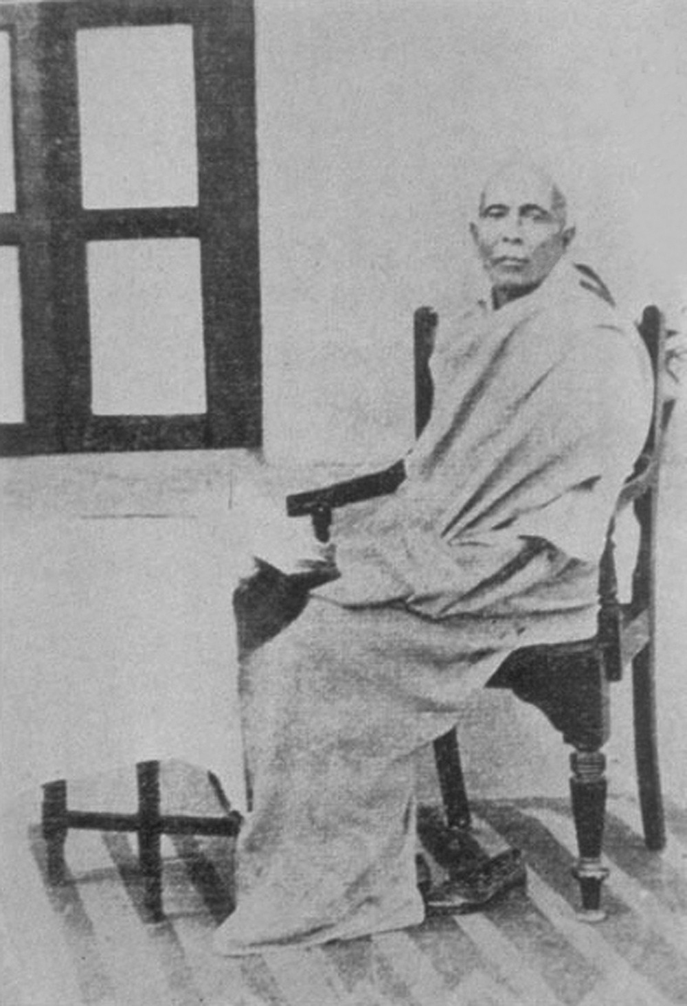 Photograph of Venerable Sri Devamitta Dharmapala,Srimath Anagarika Dharmapala after entering the order of Buddhist Monks.